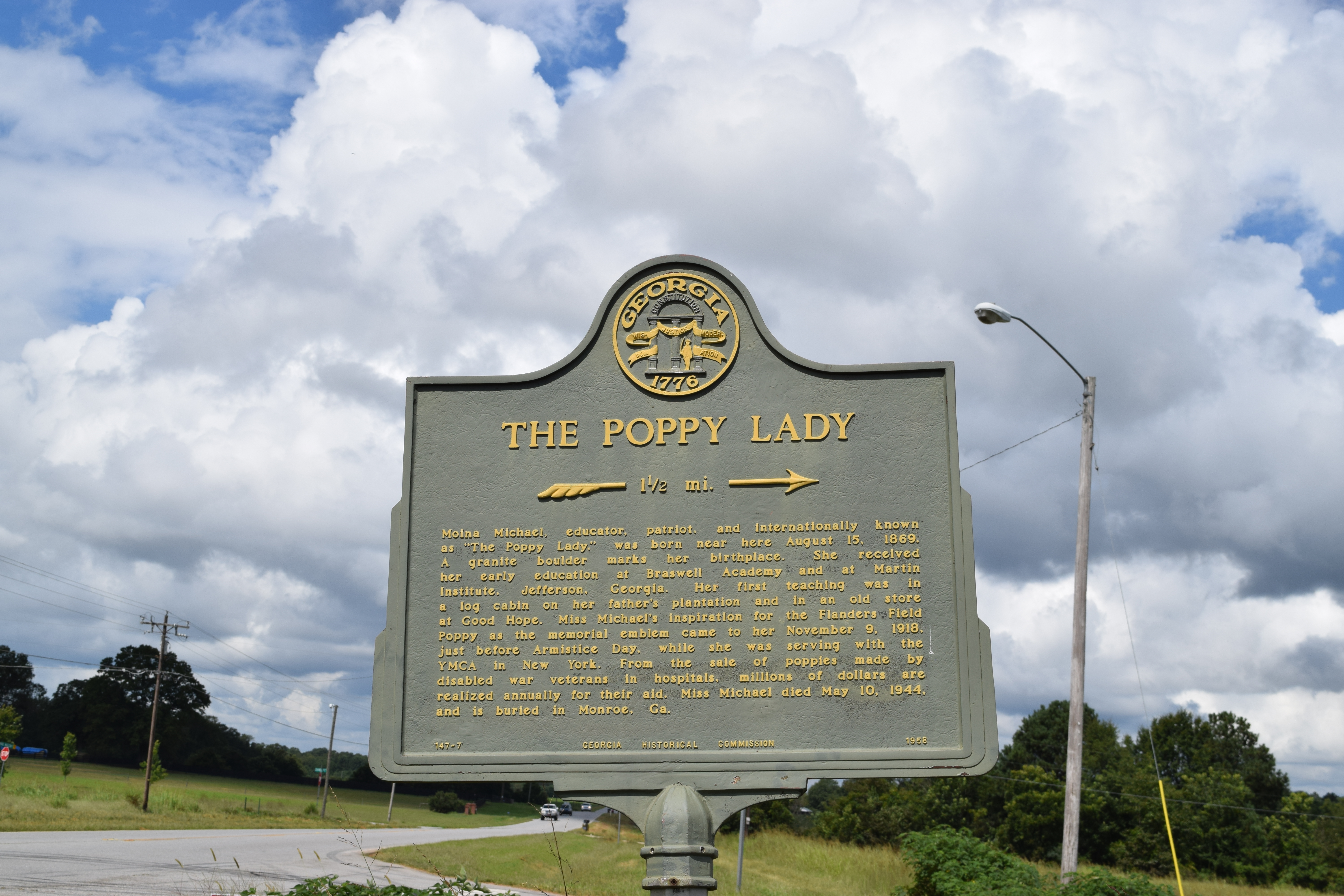 Georgia Historical Marker located at corner of Moina Michael Road and GA 83 southeast of Good Hope, GA